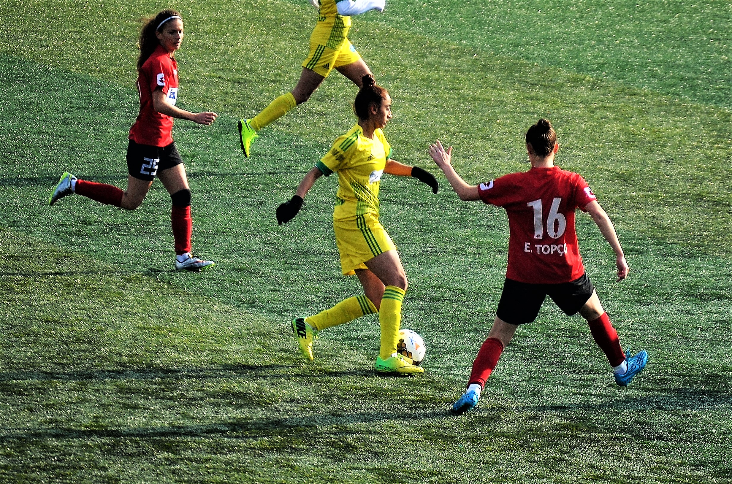 Kezban Tağ (yellow) of Kireçburnuspor in the 2015-16 Turkish Women's First League match